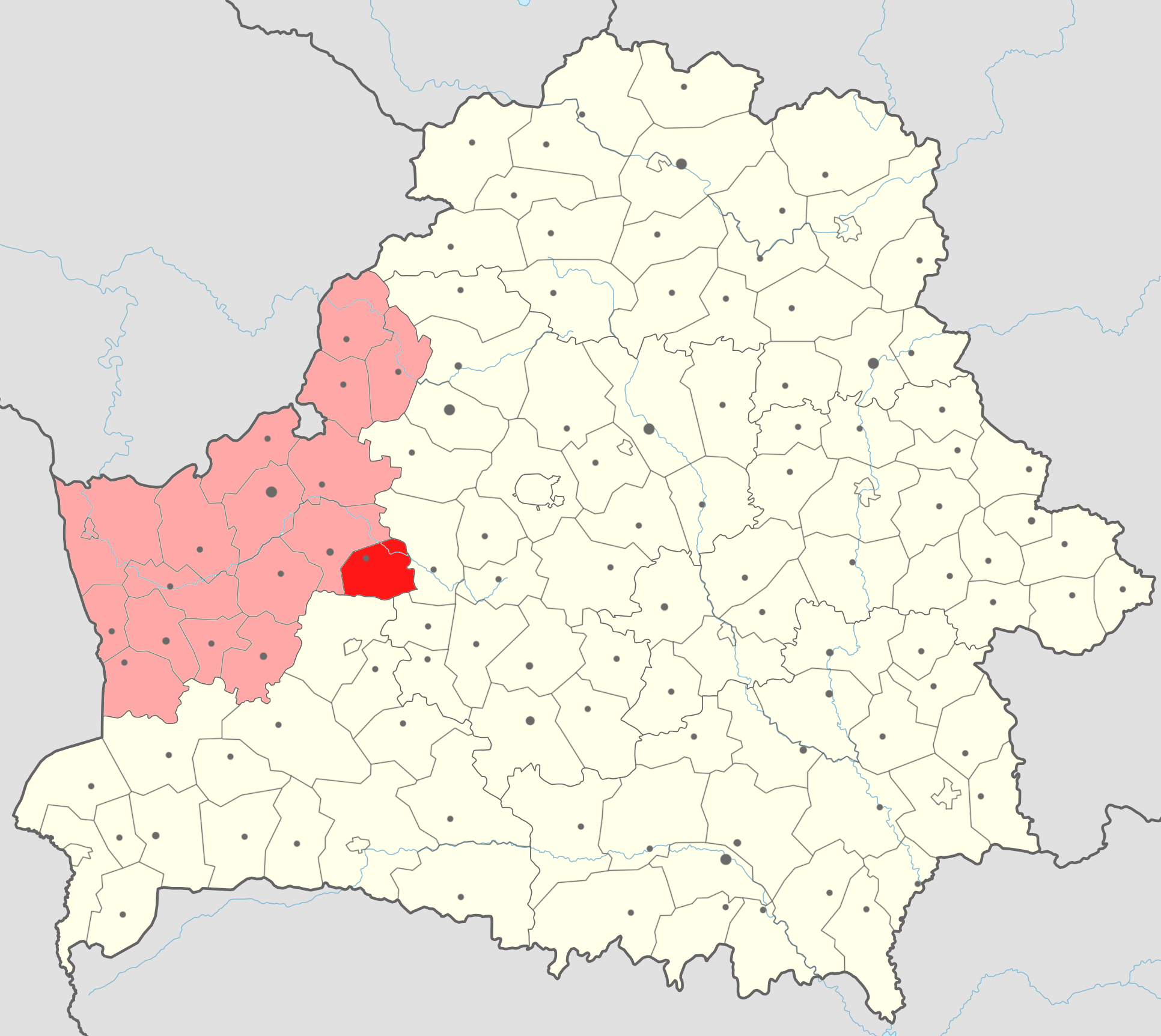 Map of Karelicki rayon (in red) with Hrodna voblast' (in light red) on the map of Belarus.